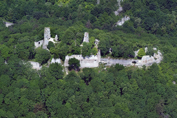 Dobrá Voda Castle, Slovakia, Aerial photography